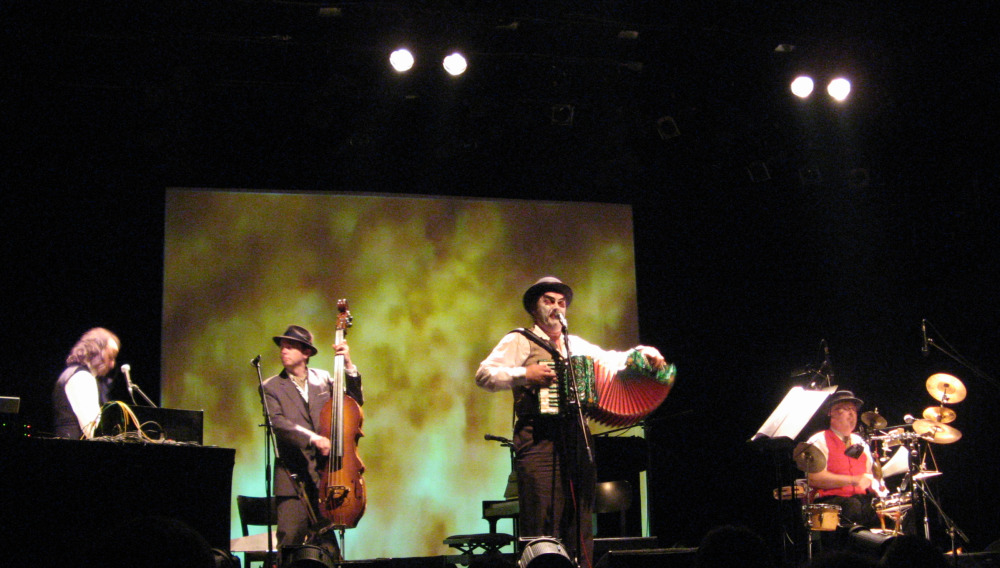 Alexander Hacke & Tiger Lillies & Danielle de Picciotto live with an audio-visual show "Mountains of Madness", May 24 2007, Frankfurt am Main (Germany), at "Mousonturm". See also: Image:2007-05-24 Alexander Hacke live.jpg